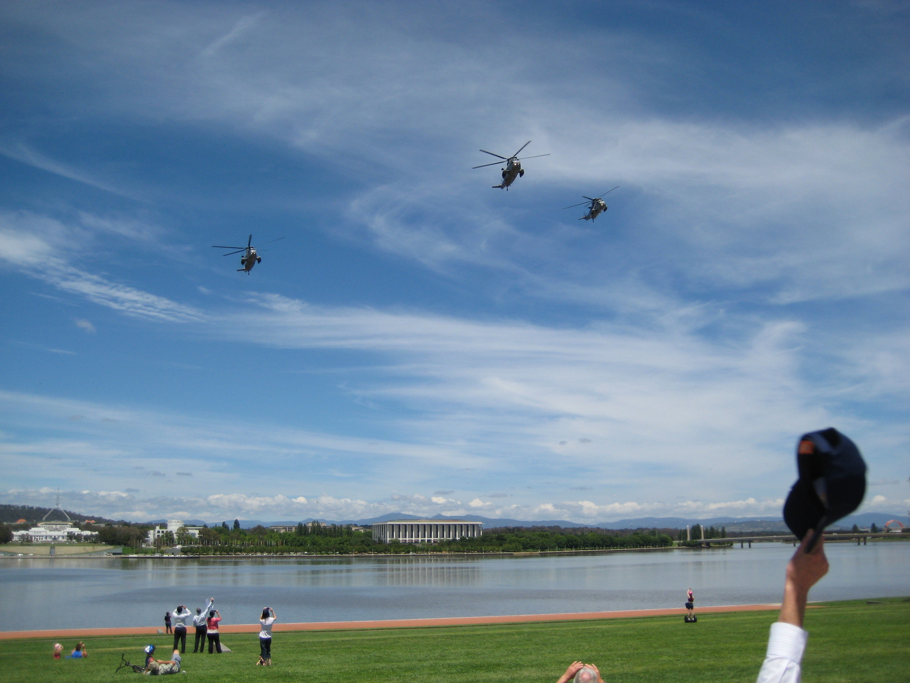 Royal Australian Navy Sea King helicopters callsign "Shark" 07 (leading), 22 (right) and 21 (left) on final mission before decommissioning, and disbanding of 817 Squadron. Seen over Lake Burley Griffin, Canberra, Australian Capital Territory, near the Australian Parliament House.